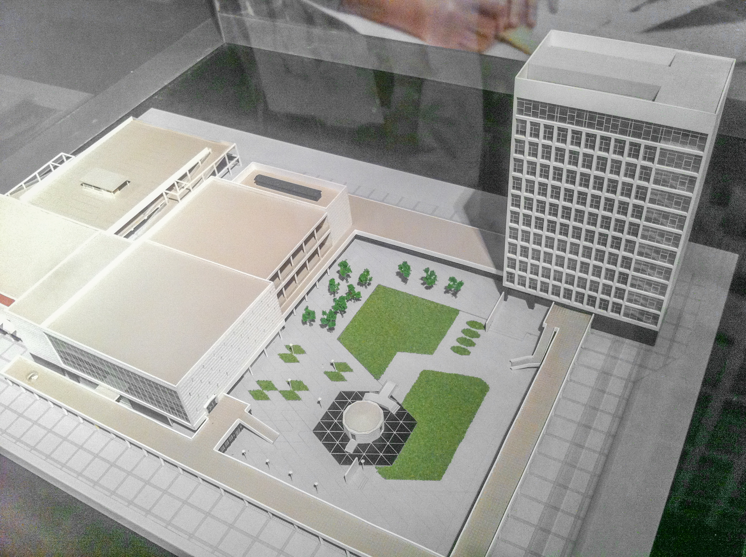 香港文物探知館, Hong Kong Heritage Discovery Centr, Tsim Sha Tsui, Hong Kong